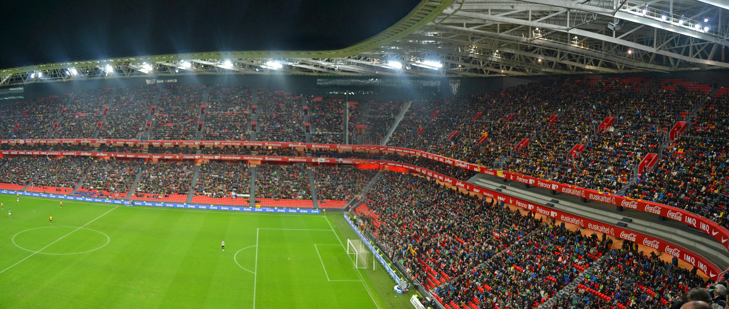 Before Basque National Football Team - Catalan National Football Team match. 28th December 2014. Bilbao, Basque Country.